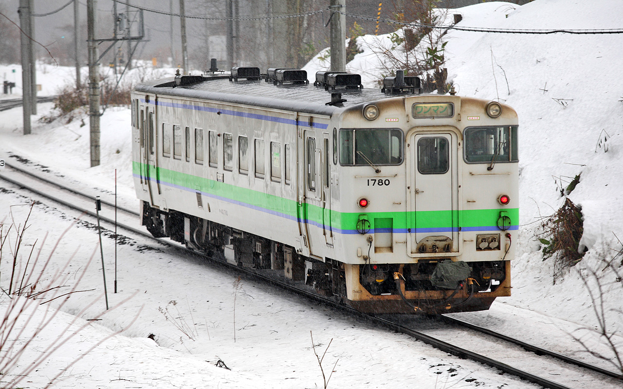 JNR Type Kiha 40 on the Sekisho Line ( 2639D / Kiha 40-1780, Kawabata Stn. - Takinoue Stn. )